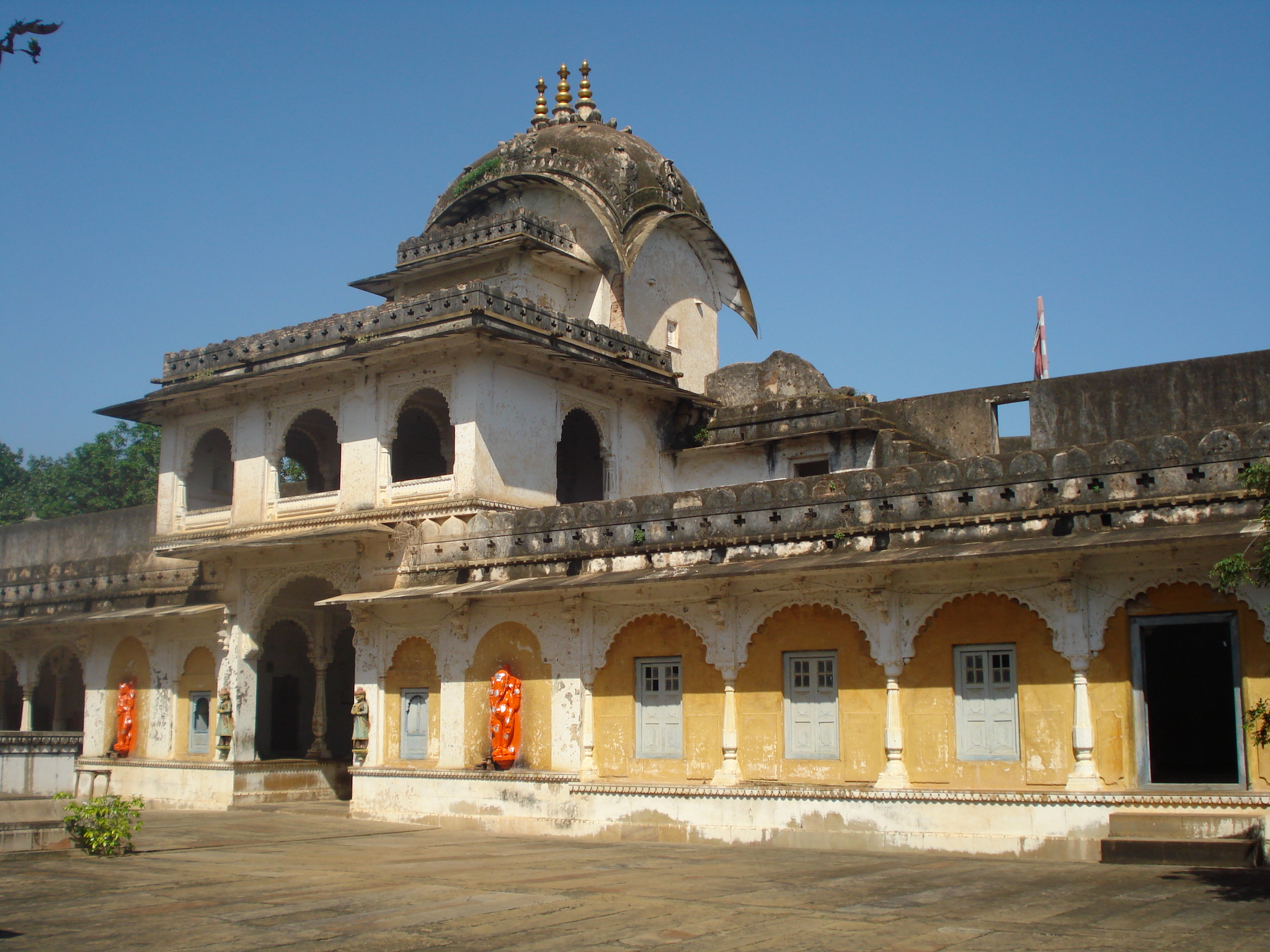 Chhatri_of__Yashwantrao_Holkar_in_Bhanpura in Mandsaur district of Madhya Pradesh, India